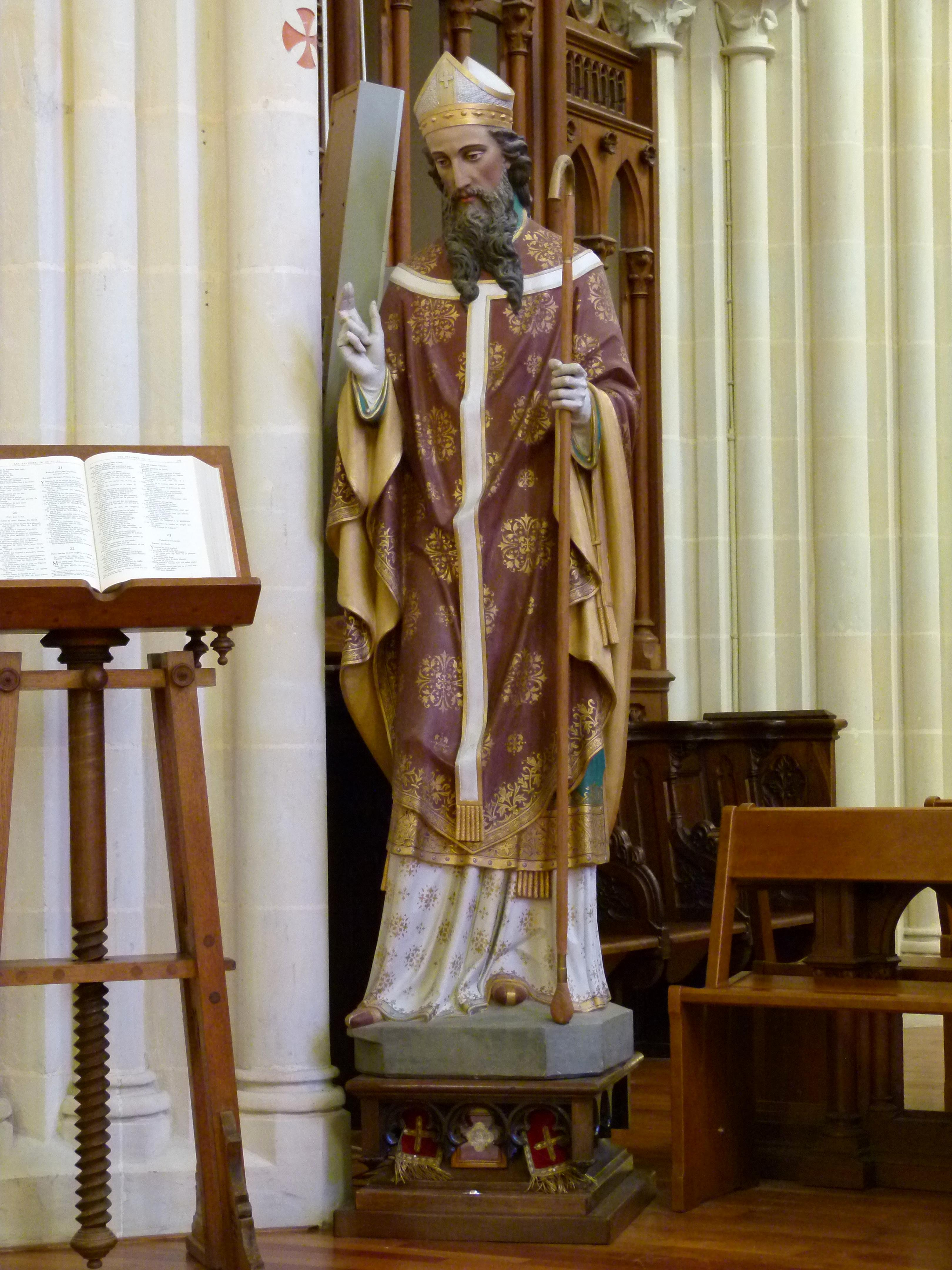 Statue of Saint Albinus of Angers, first patron saint of Languidic, France, in the church Saint-Peter.